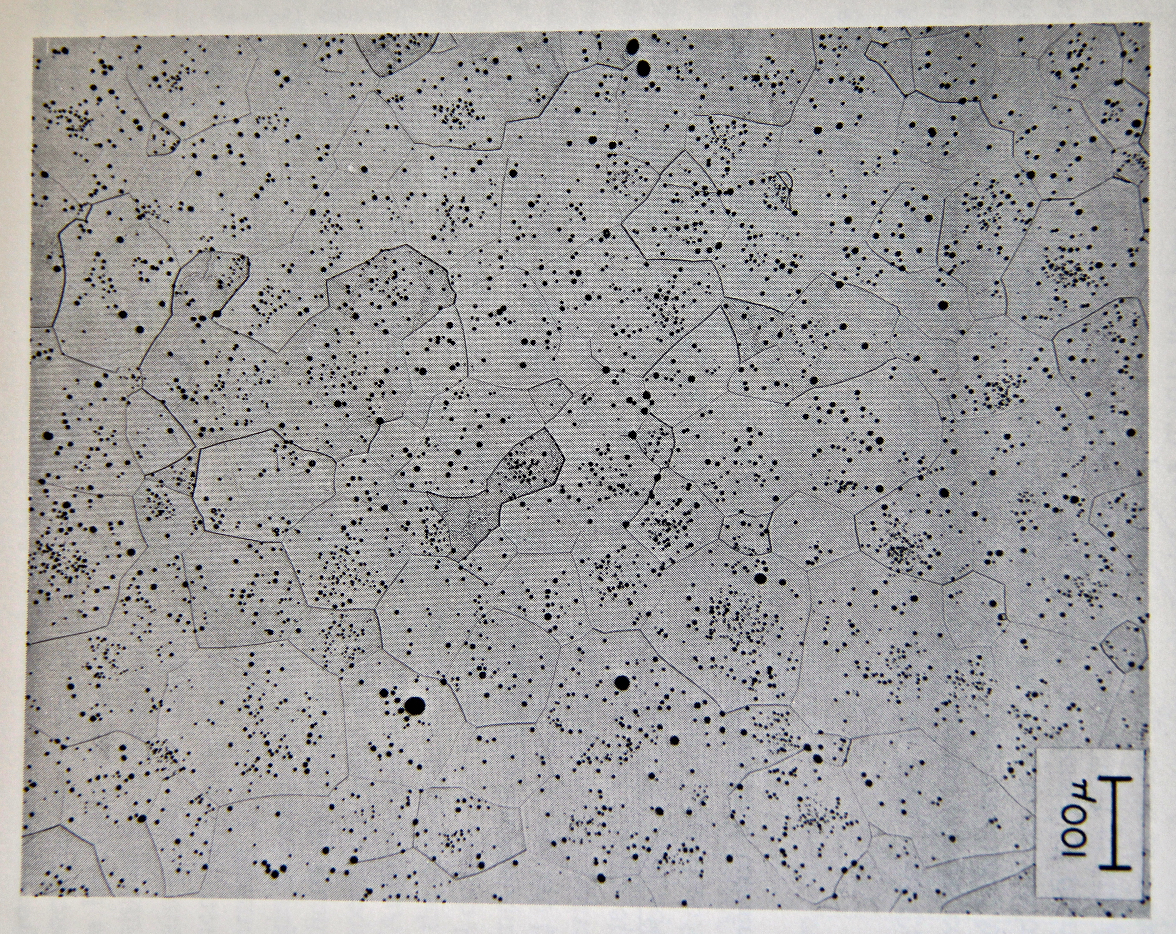 Yttrium oxide at 100X magnification with discontinuous grain growth and pores. Photo by Richard C. Anderson, inventor of Yttralox, taken in 1966.